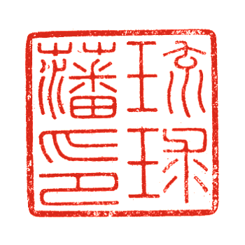 Ryukyu-han's seal